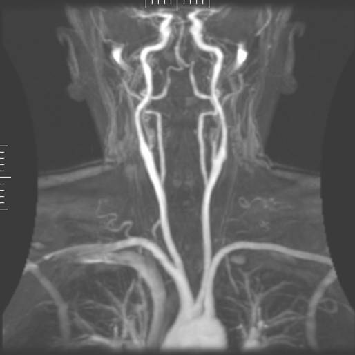 Author: Ofir Glazer, Bio-Medical Engineering Department, Tel-Aviv University, Israel. Part of M.Sc. final project, tutored by Dr. Hayit Greenspan.